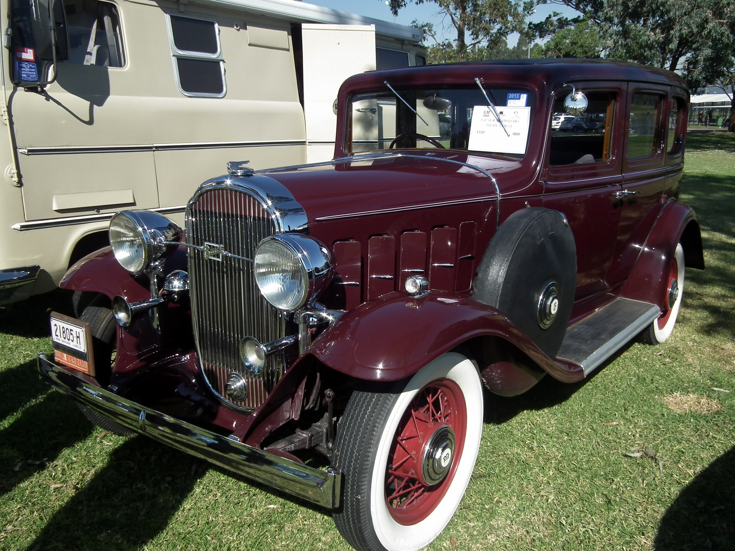 1932 Buick 8/50 sedan. Taken at the 2013 General Motors Display Day, held in the grounds of Penrith Panthers Club, Penrith NSW.